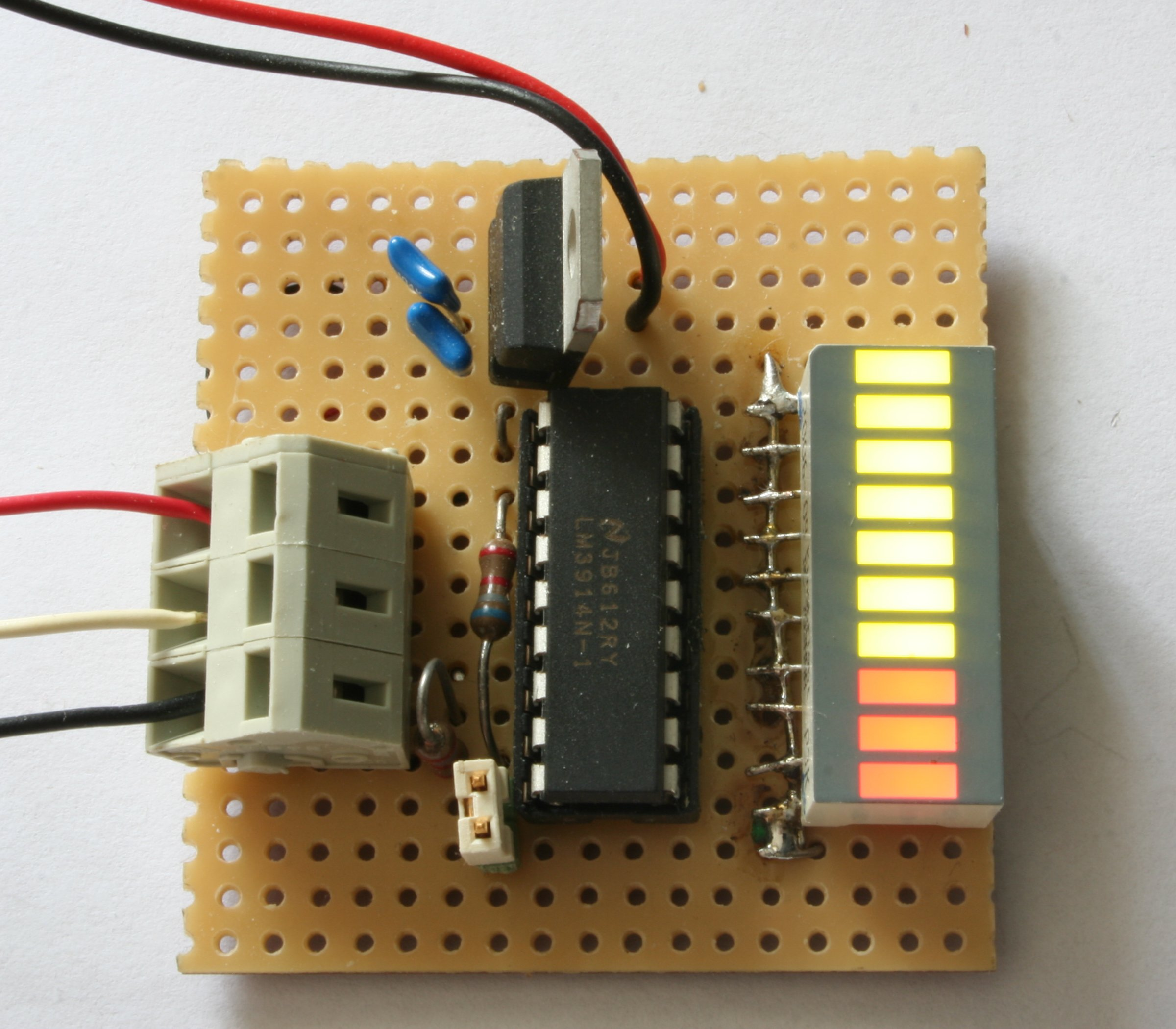 An LN 3914N, a LED Bar, a 7805 and some smaller parts as an Analog to Digital Converter